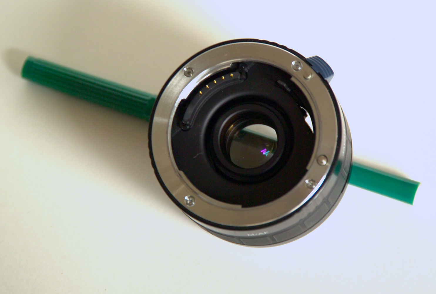 This 2× teleconverter for an SLR camera contains a lens that spreads the image so that it appears twice as large on the film as it would without the converter. This one uses a bayonet-type lens mount. Photo by User:Fg2